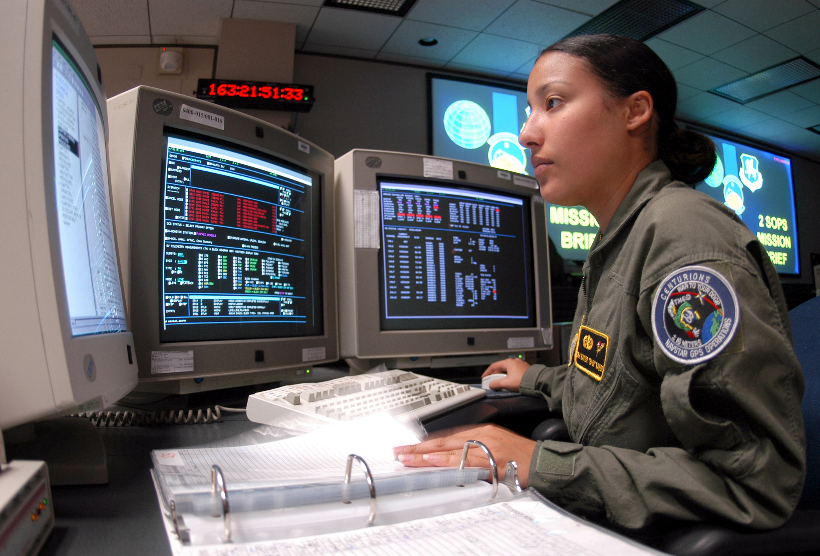 Controlling satellites -- Senior Airman Nayibe Ramos runs through a checklist during Global Positioning System satellite operations. The operations center here controls a constellation of 29 orbiting satellites that provides navigation data to military and civilian users worldwide. Airman Ramos is a satellite system operator for the 2d Space Operations Squadron at Schriever AFB, Colorado.